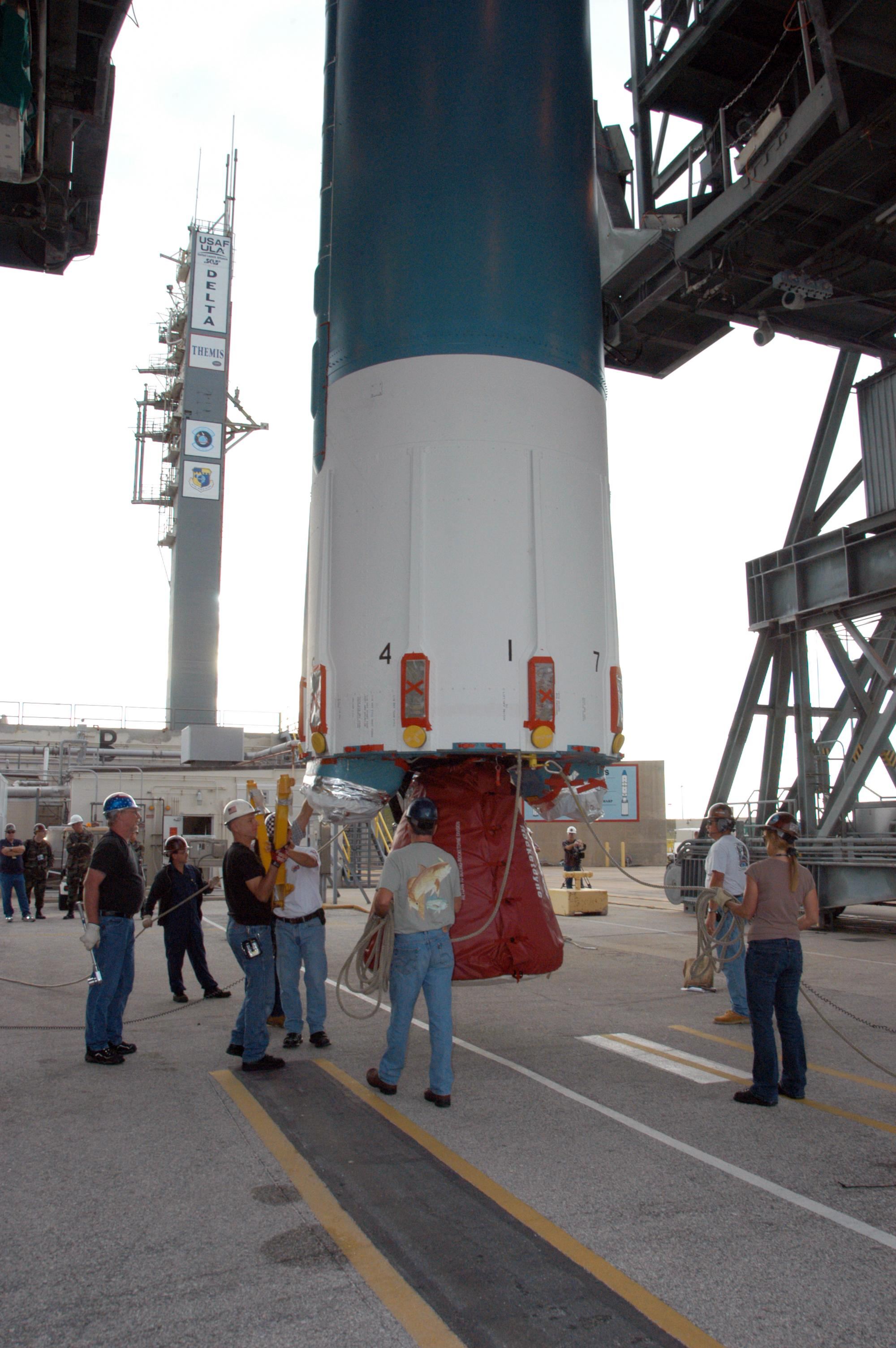 On Launch Pad 17-B at Cape Canaveral Air Force Station in Florida, workers check the lines attached to the lower end of the United Launch Alliance Delta II rocket before it is lifted into the mobile service tower. The rocket is the launch vehicle for the THEMIS spacecraft, consisting of five identical probes, the largest number of scientific satellites ever launched into orbit aboard a single rocket. This unique constellation of satellites will resolve the tantalizing mystery of what causes the spectacular sudden brightening of the aurora borealis and aurora australis - the fiery skies over the Earth's northern and southern polar regions. After the first stage is in the mobile service tower on the pad, nine solid rocket boosters will be placed around the base of the first stage and attached in sets of three. THEMIS is scheduled to launch aboard the Delta II at 6:07 p.m. EST on Feb. 15.